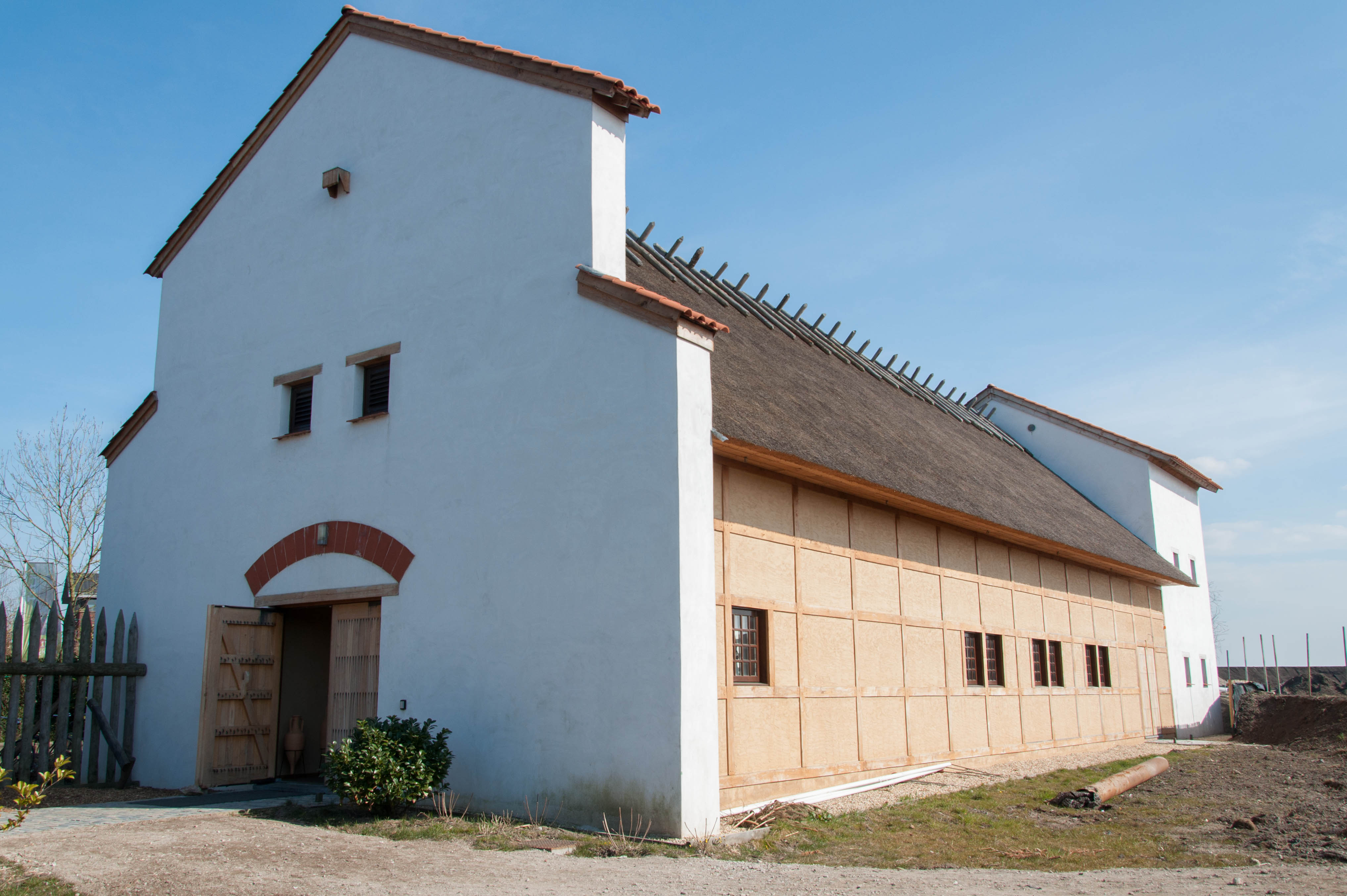 Reconstruction of a roman villa that once stood in Rijswijk-De Bult (Zuid-Holland, the Netherlands). This reconstruction can be found in the Archeon Archeological Park, located in Alphen aan den Rijn, the Netherlands). It currently houses Erfgoedhuis Zuid-Holland.